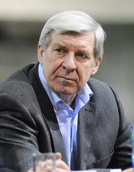 Vladimir Ponomarev at PFC CSKA Moscow fans meeting